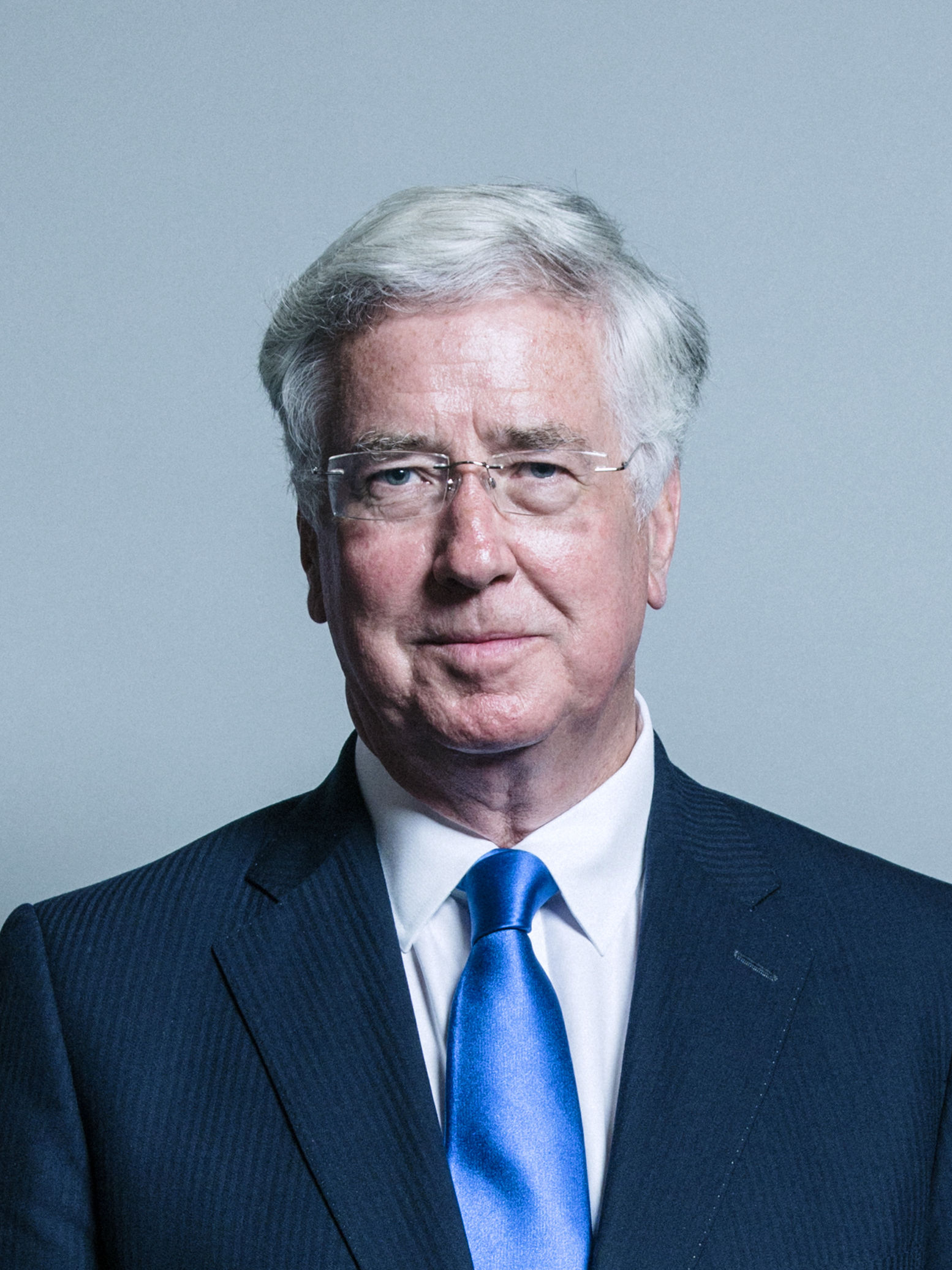 Official portrait of Sir Michael Fallon